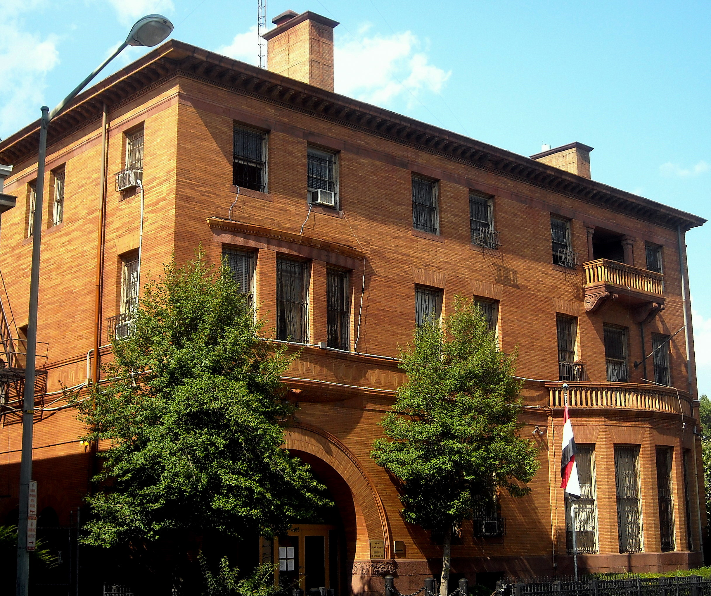 The Embassy of Iraq's consular office (also known as the Boardman House) located at 1801 P Street NW in the Dupont Circle neighborhood of Washington, D.C. Designed by Hornblower & Marshall in 1893, the building is an example of Richardsonian Romanesque architecture. William J. Boardman and his family were the first occupants. Boardman's daughter, Mabel, led the American Red Cross in the early 20th century and continued to live in the home until her death in 1946. Since 1962 (except when diplomatic ties were severed from 1991–2003), the building has served as the diplomatic mission of Iraq. The building is a contributing property to the Dupont Circle Historic District and Massachusetts Avenue Historic District.